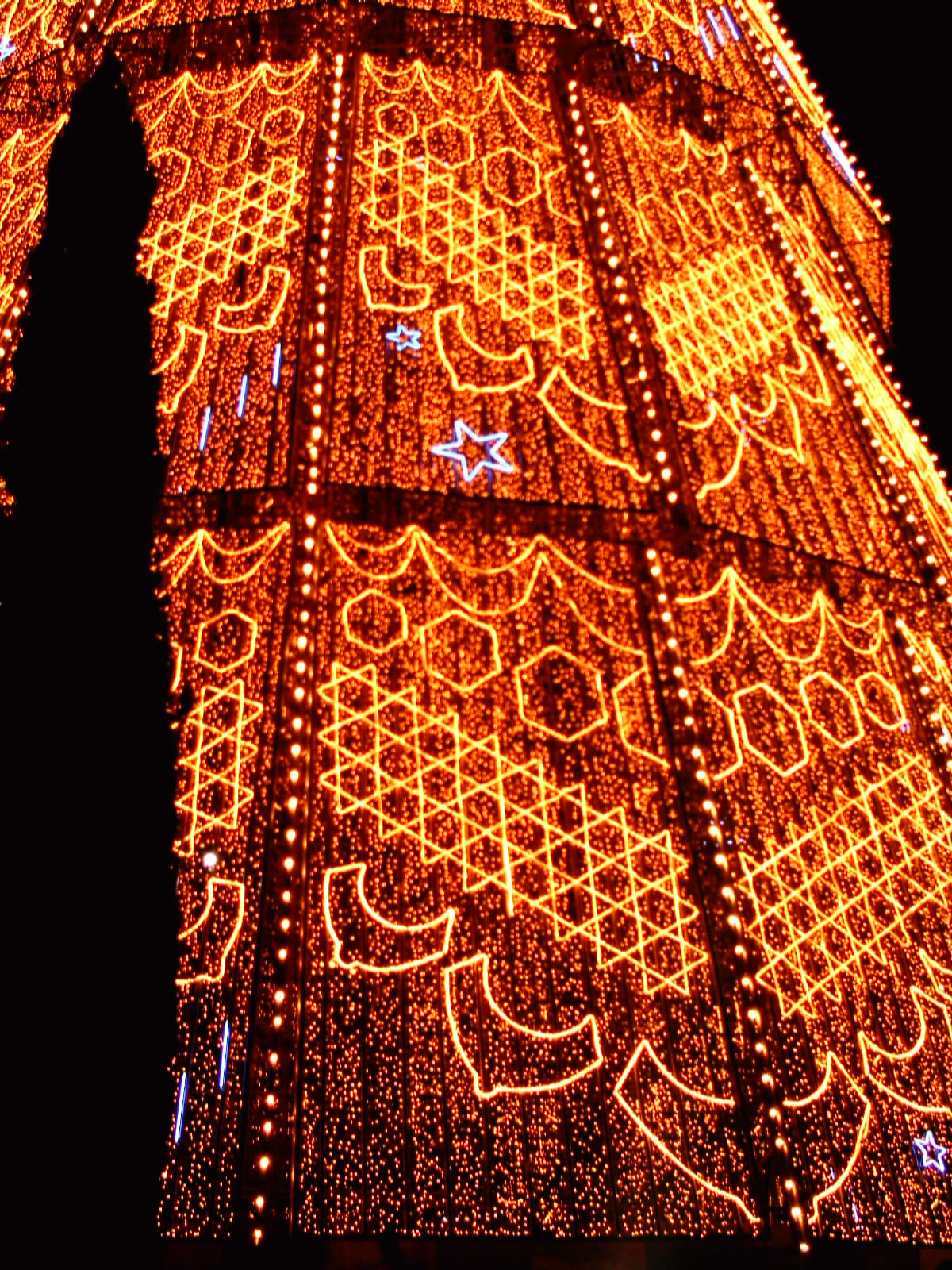 Detail of an illuminated Christmas tree in the park in front of Mosteiro dos Jerónimos, Belém, Portugal.